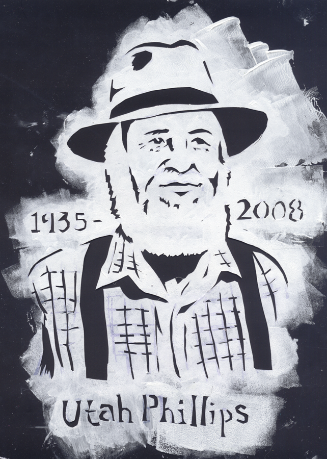 Acetate stencil commemorating the life and death of Utah Phillips